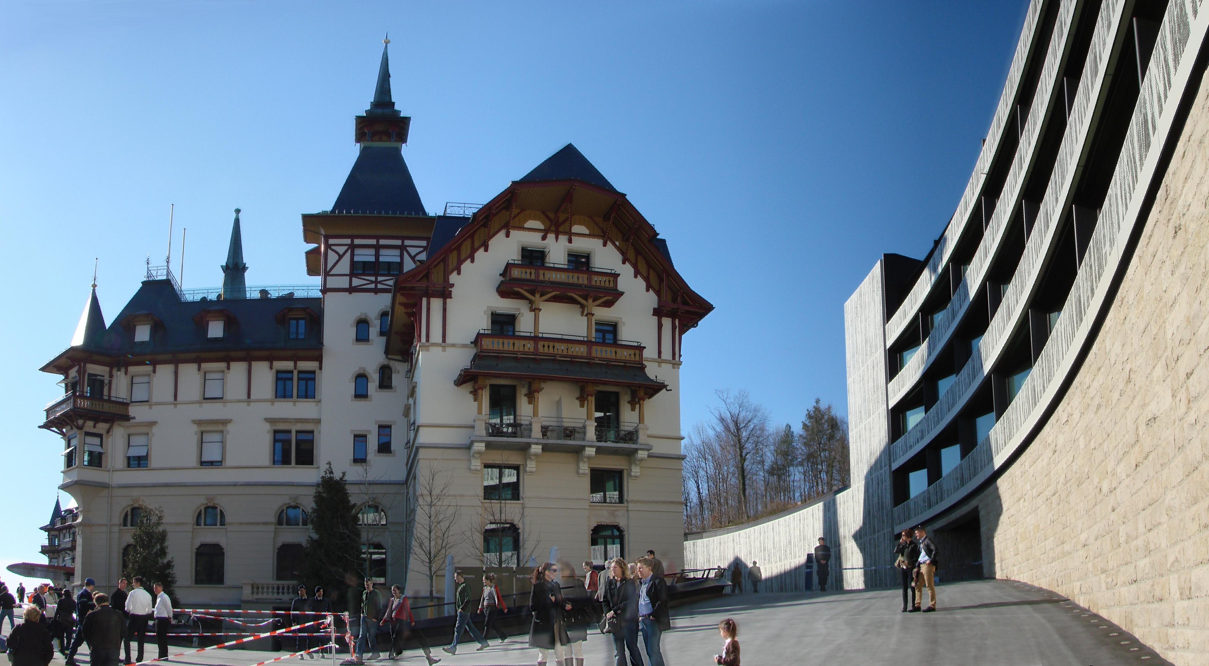 Dolder Grand Hotel, external view - To the left, the old building, right the new wing